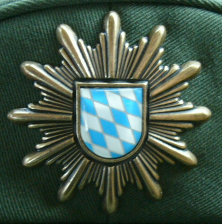 Insigna of the Bavarian police as shown on hats.